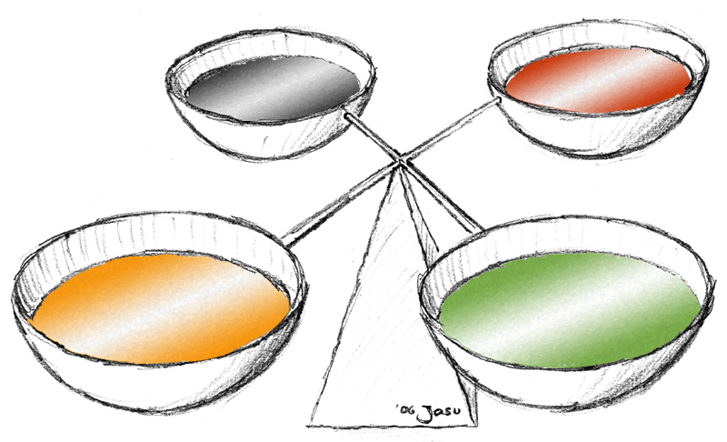 diagram to visualise the ancient Greek concept of the equilibrium of the four humours: blood (red), yellow bile, black bile, and phlegm (green)